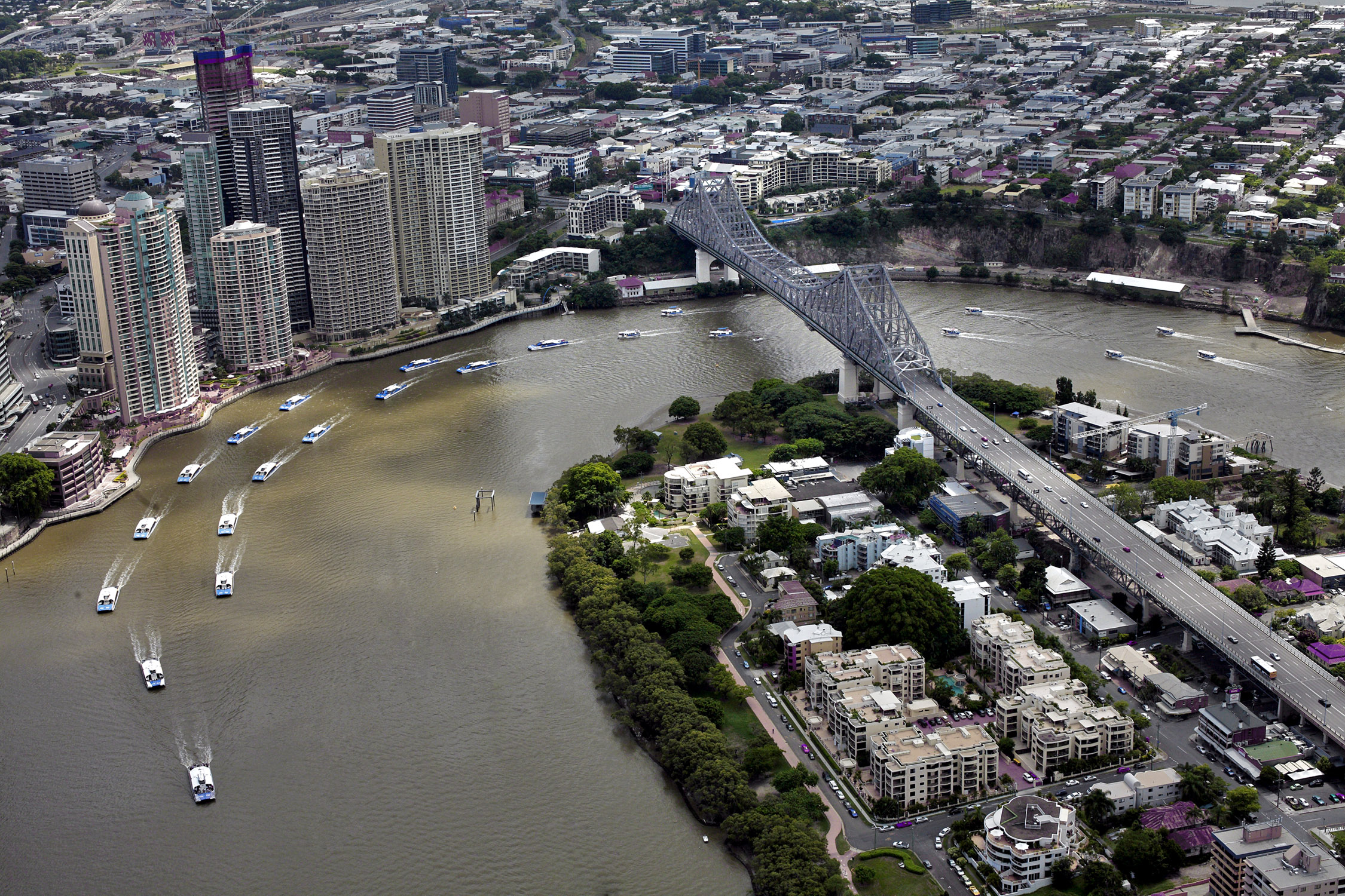 CityCat and City Ferry flotilla returns to the river 14 February